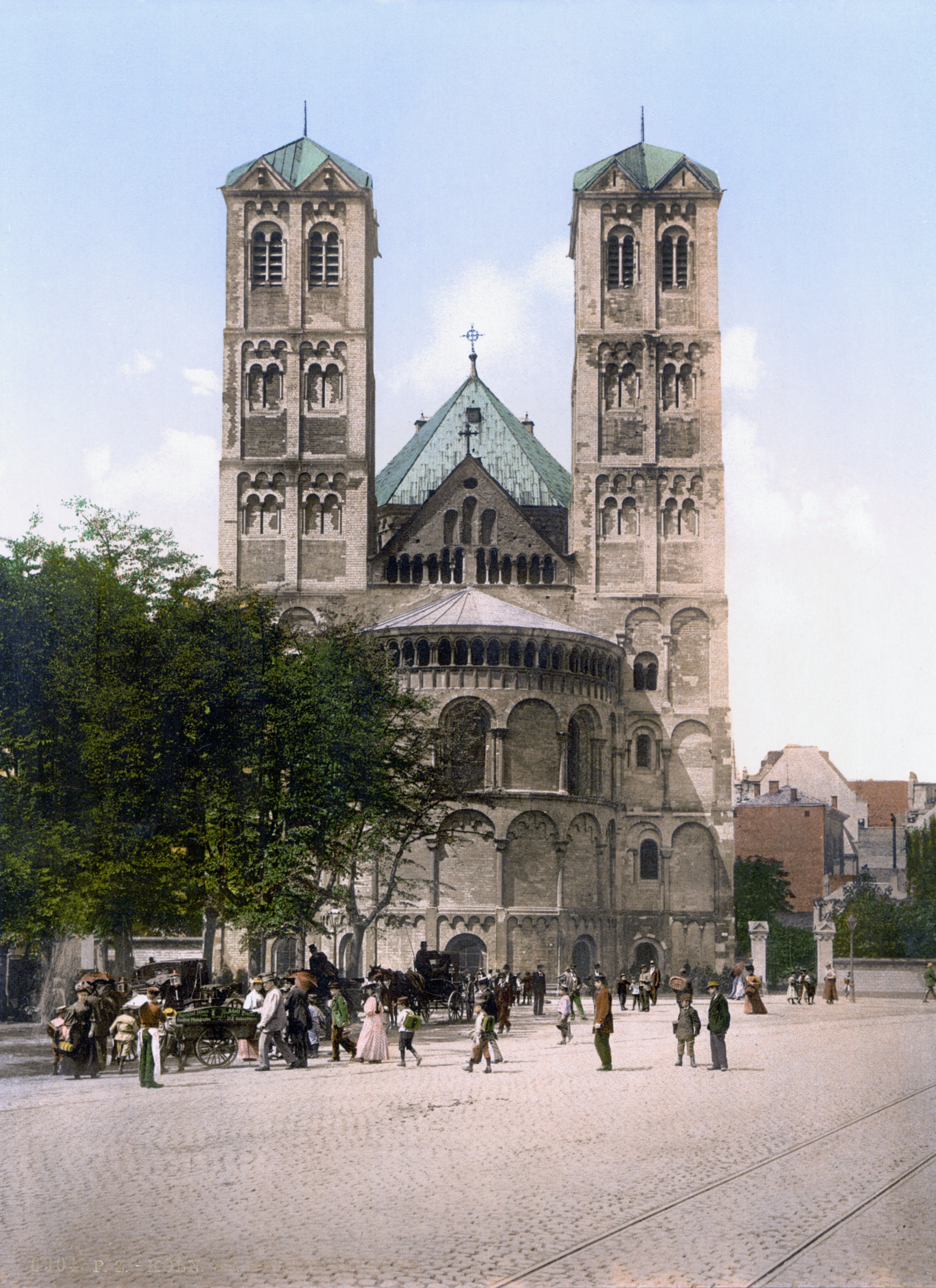 Church of St. Gereon, Cologne, the Rhine, Germany